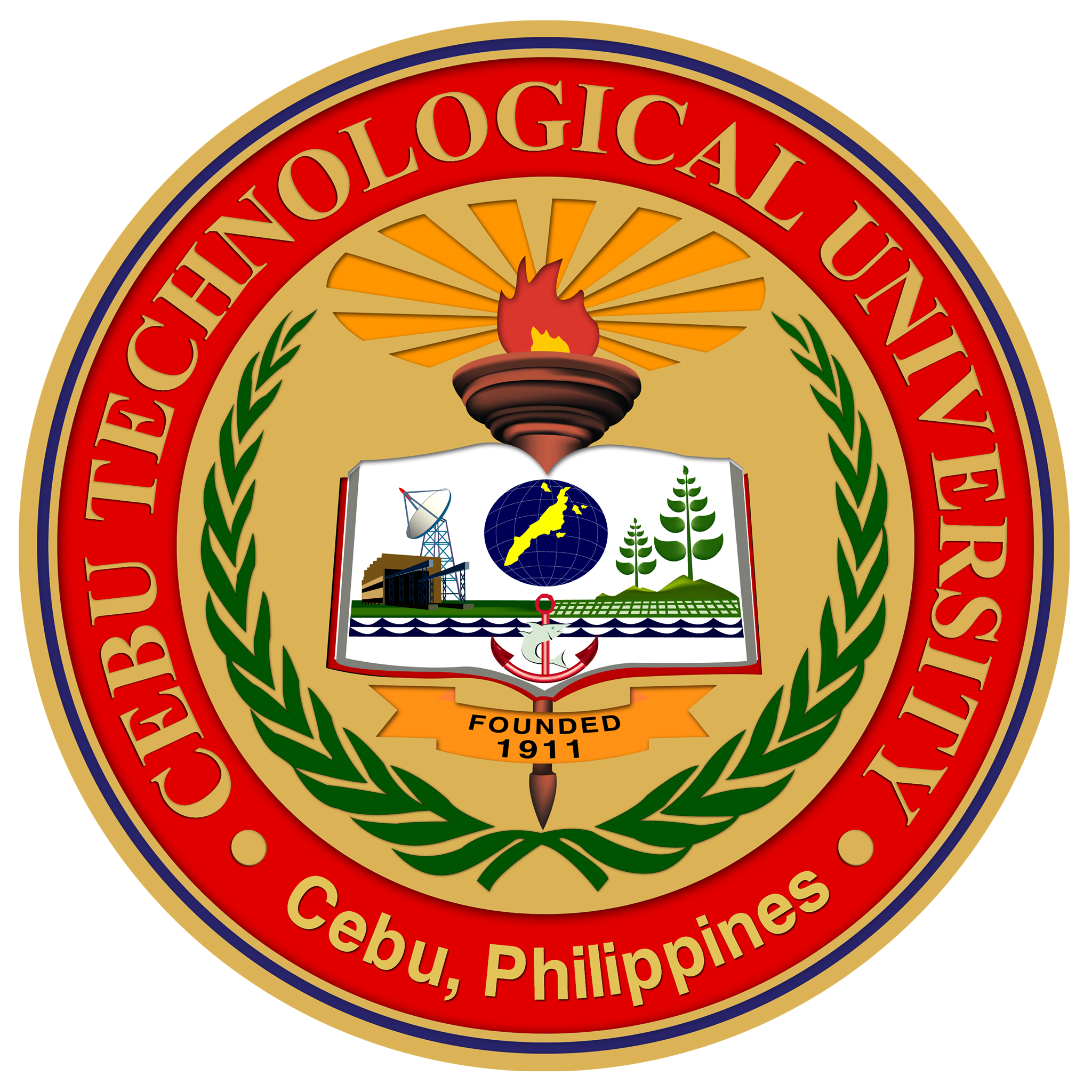 This logo is the official logo of the Cebu Technological University.